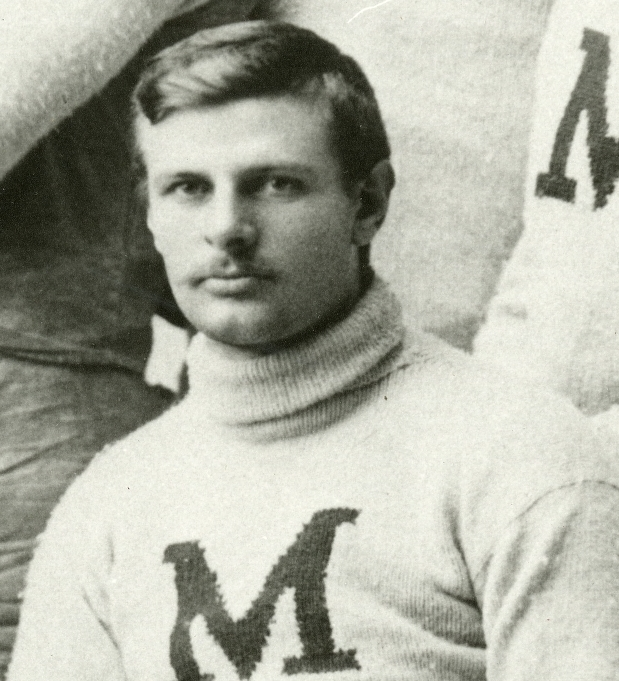 Charles Thomas cropped from 1891 University of Michigan football team